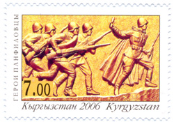 Stamp of Kyrgyzstan